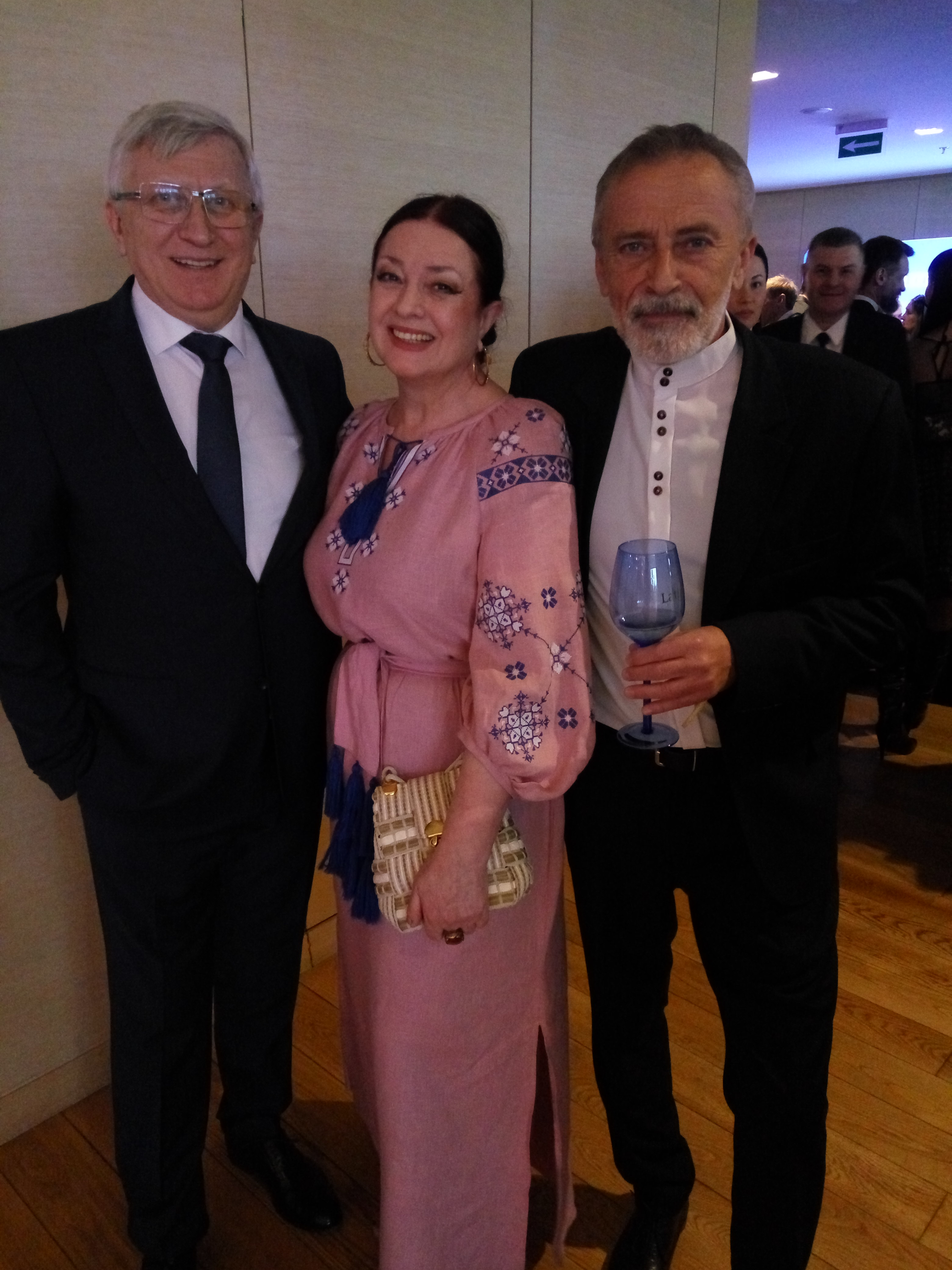 Film Prize "Gold Dzyga" 2018